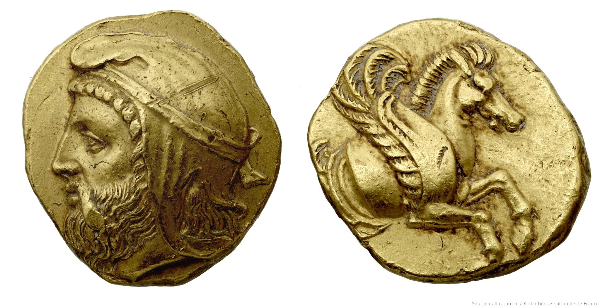 Yervand I (Orontes; ?—344 BC.) — the founder of the Yervanduni (Orontid) dynasty, satrap of Armenia (from 401 BC.) and Mysia. Golden coin (probably stater) of the times of reign in Mysia.